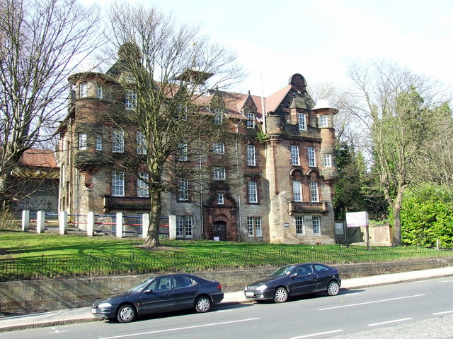 Former Territorial Army Centre At the west end of Paisley's High Street. By local architect T. G. Abercrombie. The building is known locally as "The Drill Hall". Abercrombie also designed Paisley Grammar School 427193. Click this for more information about his work. Thanks to Bob Greenfield for this information.